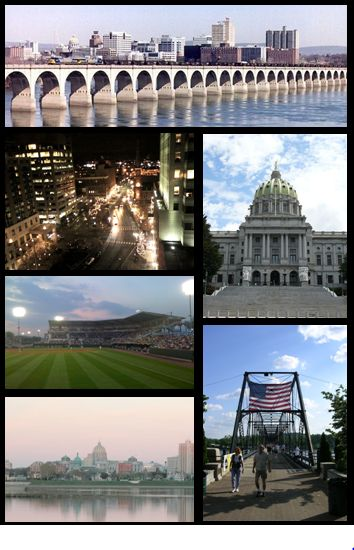 Montage of Harrisburg images. From top to bottom left to right: Harrisburg skyline Market Square, in Downtown Harrisburg Pennsylvania State Capitol Metro Bank Park Walnut Street Bridge Susquehanna River